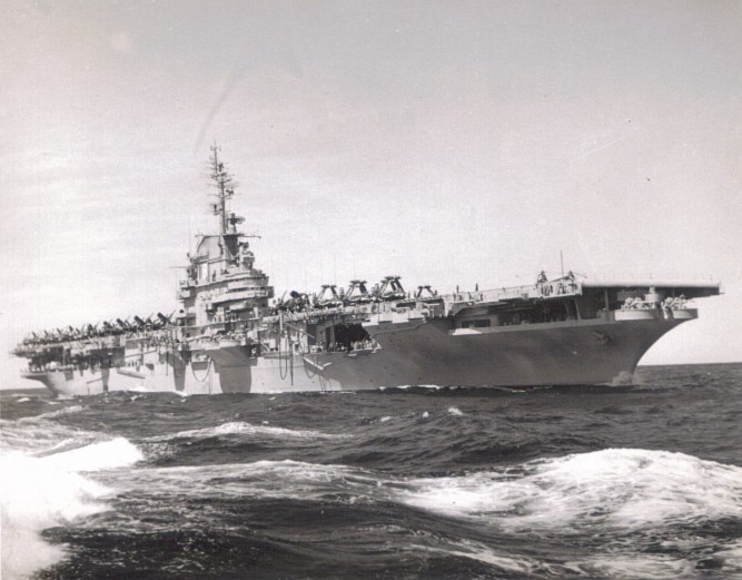 The U.S. Navy aircraft carrier USS Wasp (CV-18) in late 1951. Wasp underwent the SCB-27A reconstruction at the New York Navy Yard beginning in September 1948, and was completed and recommissioned on 28 September 1951. She made her shakedown cruise from November 1951 to February 1952 to the Western Atlantic with Carrier Air Group One (CVG-1) embarked.